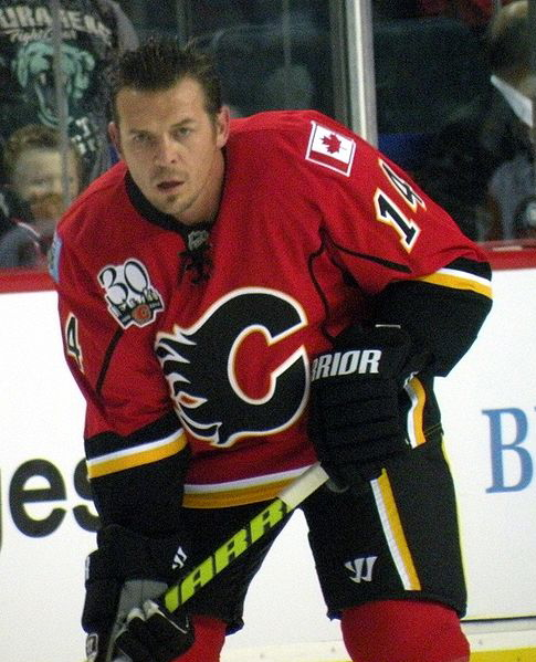 Theoren Fleury during warmup prior to a National Hockey League exhibition game between the Calgary Flames and New York Islanders in Calgary.